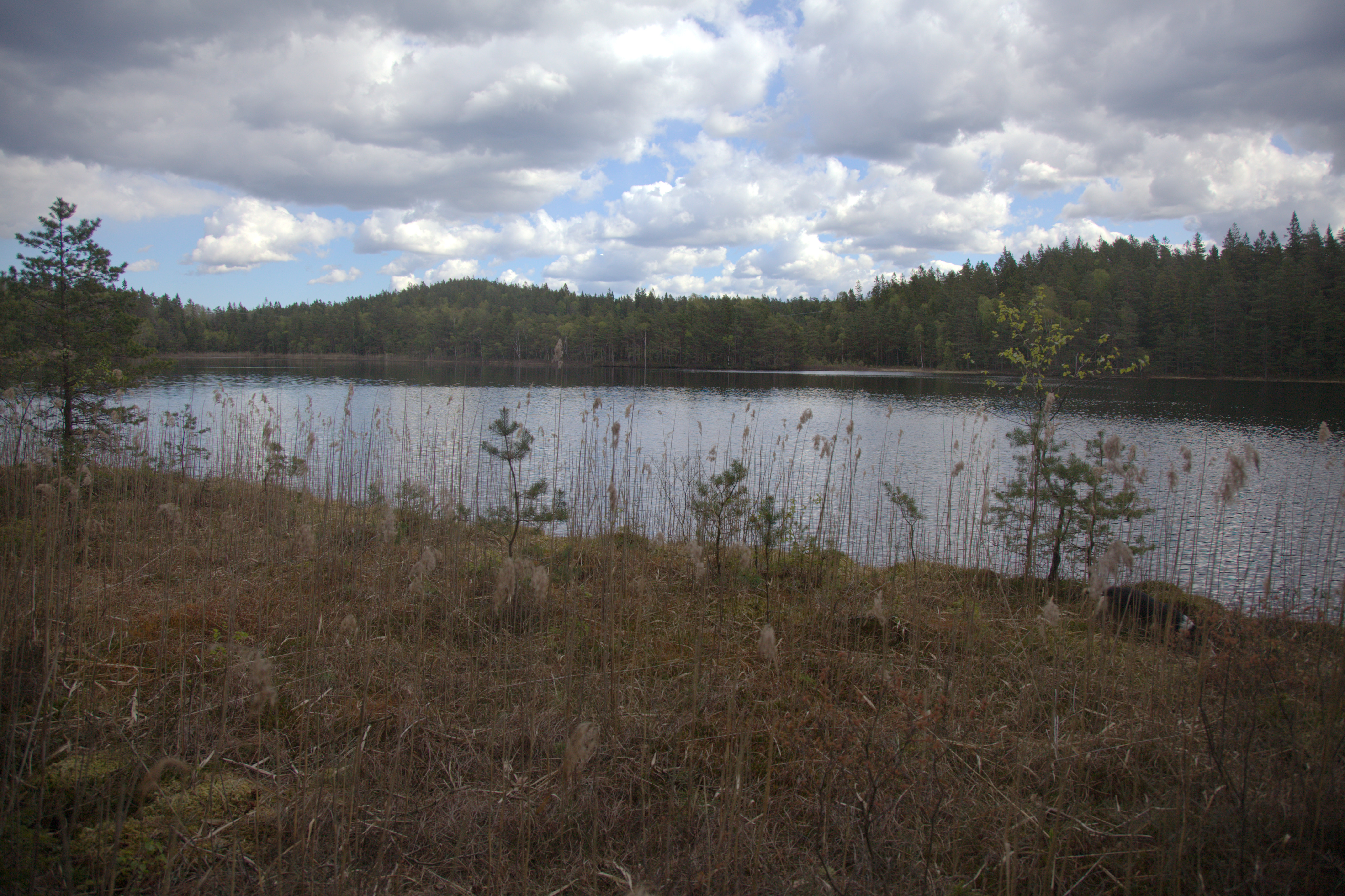 Southeast side of Svallesjön. Named after the small location Svallen in its north part.